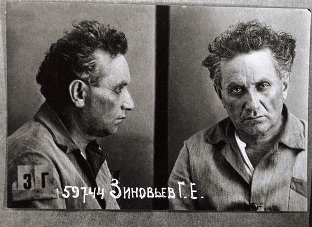 Zinovjev in prison, 1935